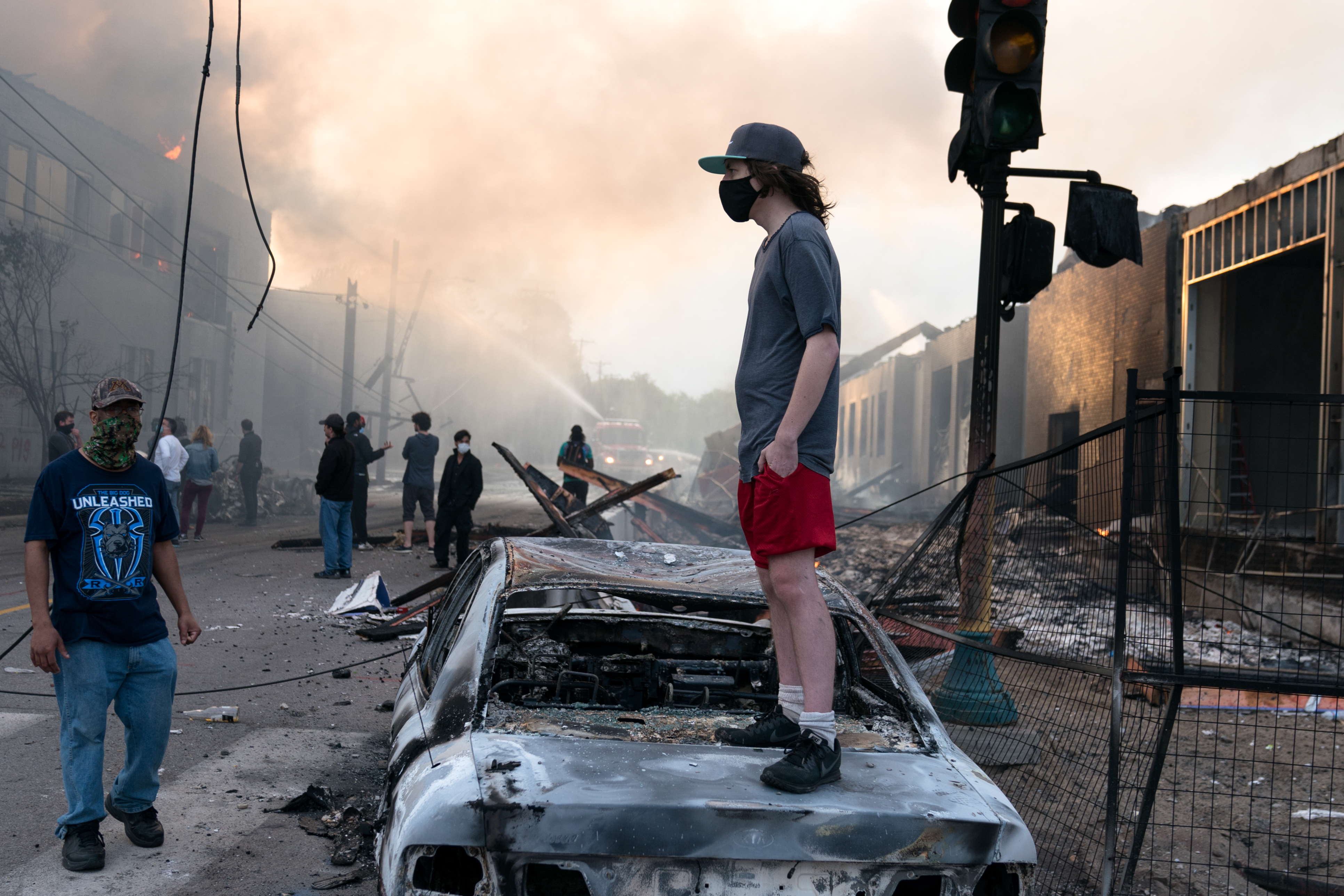 A man stands on a burned out car on Thursday morning as fires burn behind him in the Lake St area of Minneapolis, Minnesota.